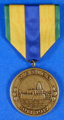 Navy Mexican Service Medal. Other version: 50pxFile:MexSerMedals.jpg